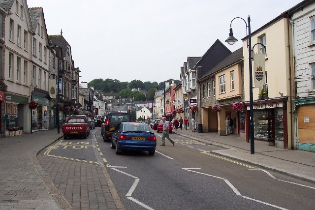 The former A30 road in the town of Okehampton, Devon, England. For more information see the Wikipedia article Okehampton.